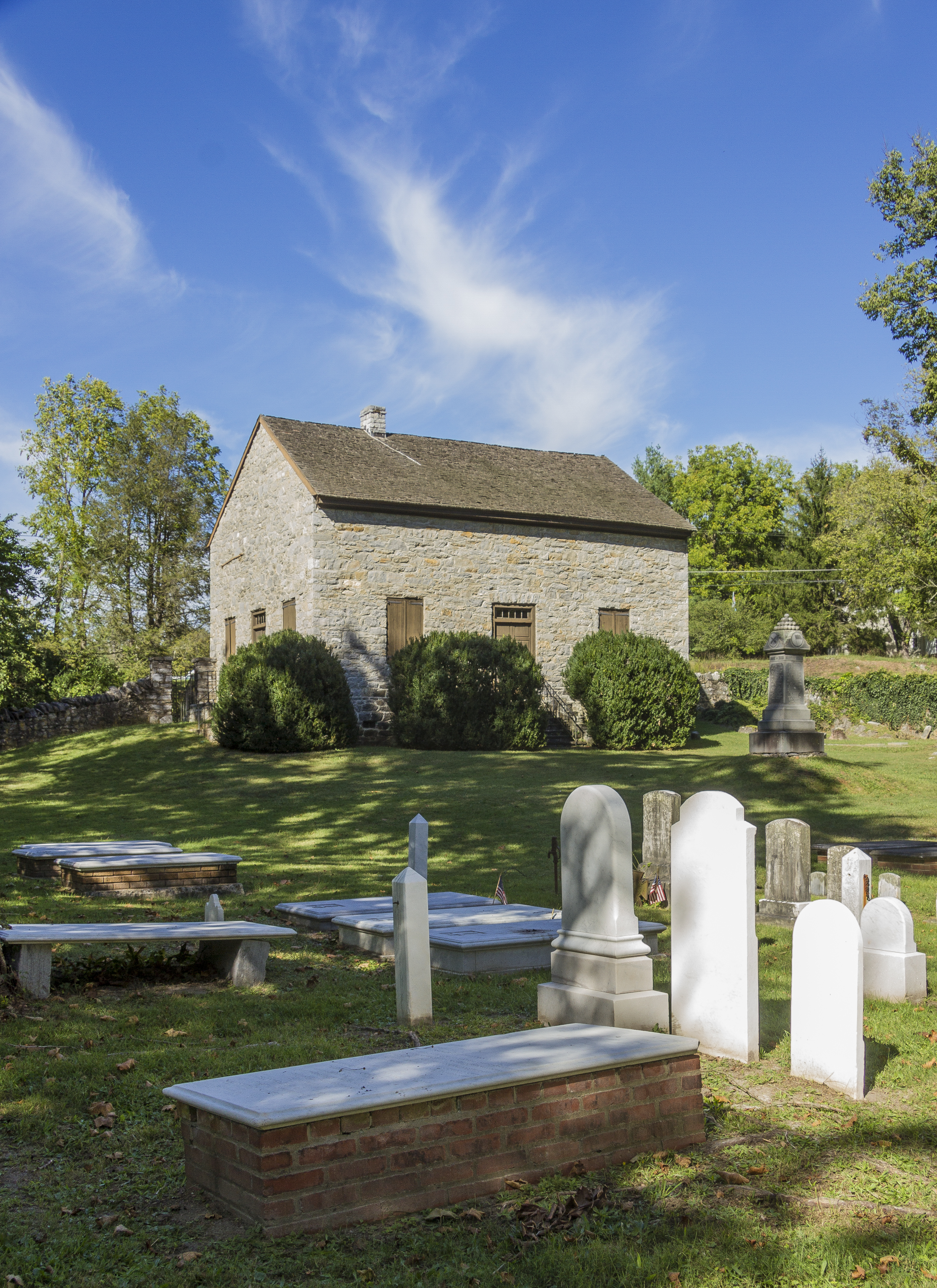 The Old Chapel and graveyard near Millwood (Old Chapel), Boyce, Virginia, USA.